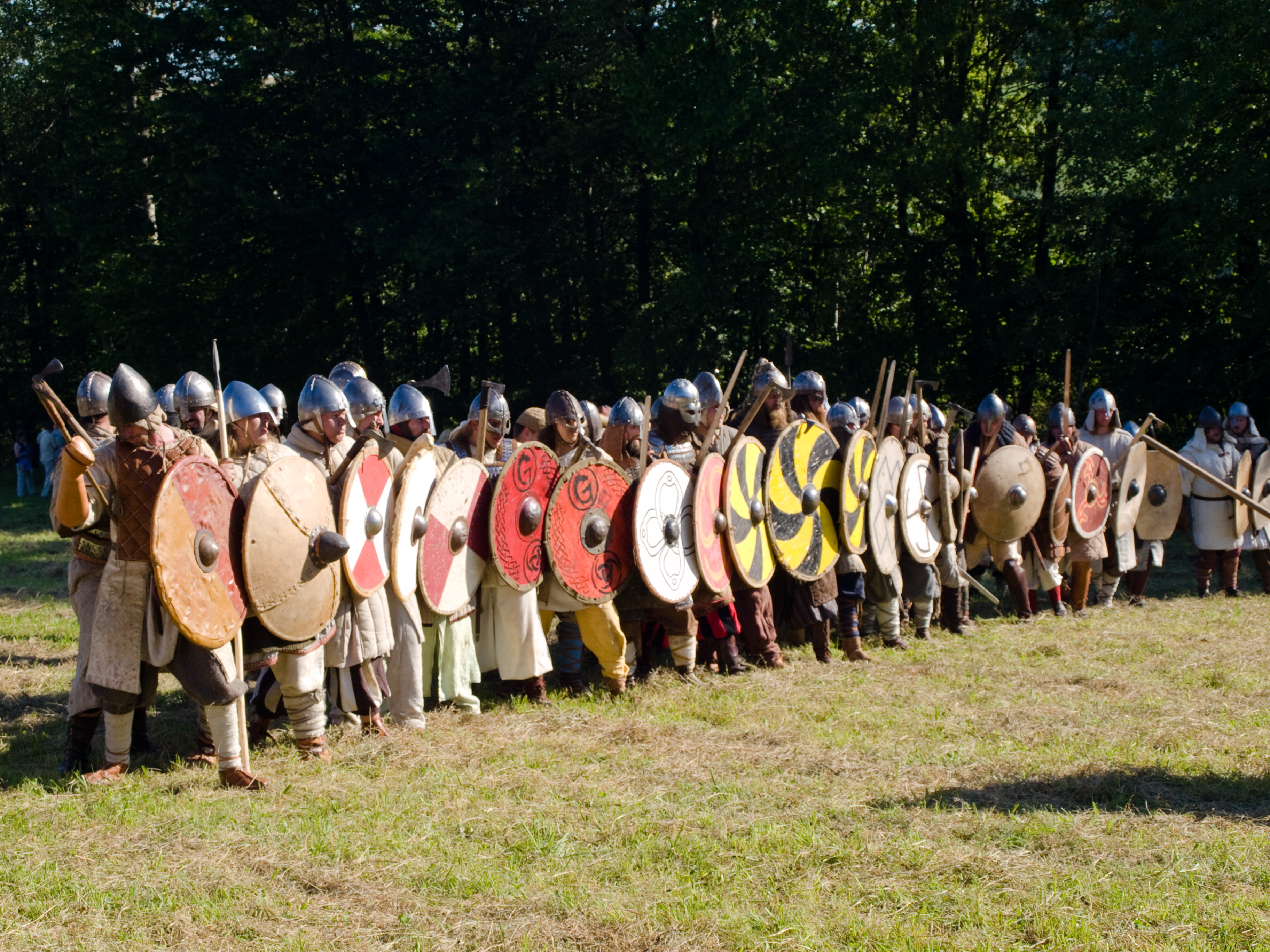 Reconstrucion of Early Middle Ages battle of Vikings and Slavs – Rogar, Neveklov, Central Bohemian Region, Czech Republic